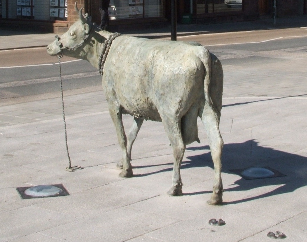 Photograph of the Turra Coo statue in Turriff town centre. Statue erected November 2010, photograph taken May 2011.